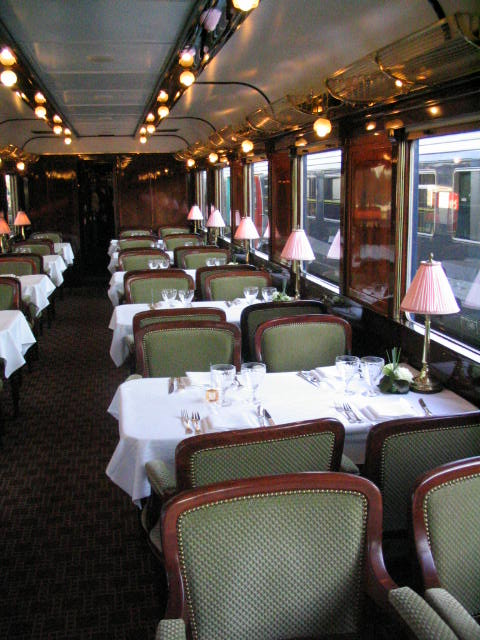 The 'secret' Orient Express formed of genuine heritage cars is based in Paris and is used exclusively by SNCF French railways for its supported charites and for its own corporate use. The Pullman Orient Express is an authentic train in the style of the genuine Orient Express. The decor, staff uniforms and cuisine are faithful to the original 1920s / 1930s trains.